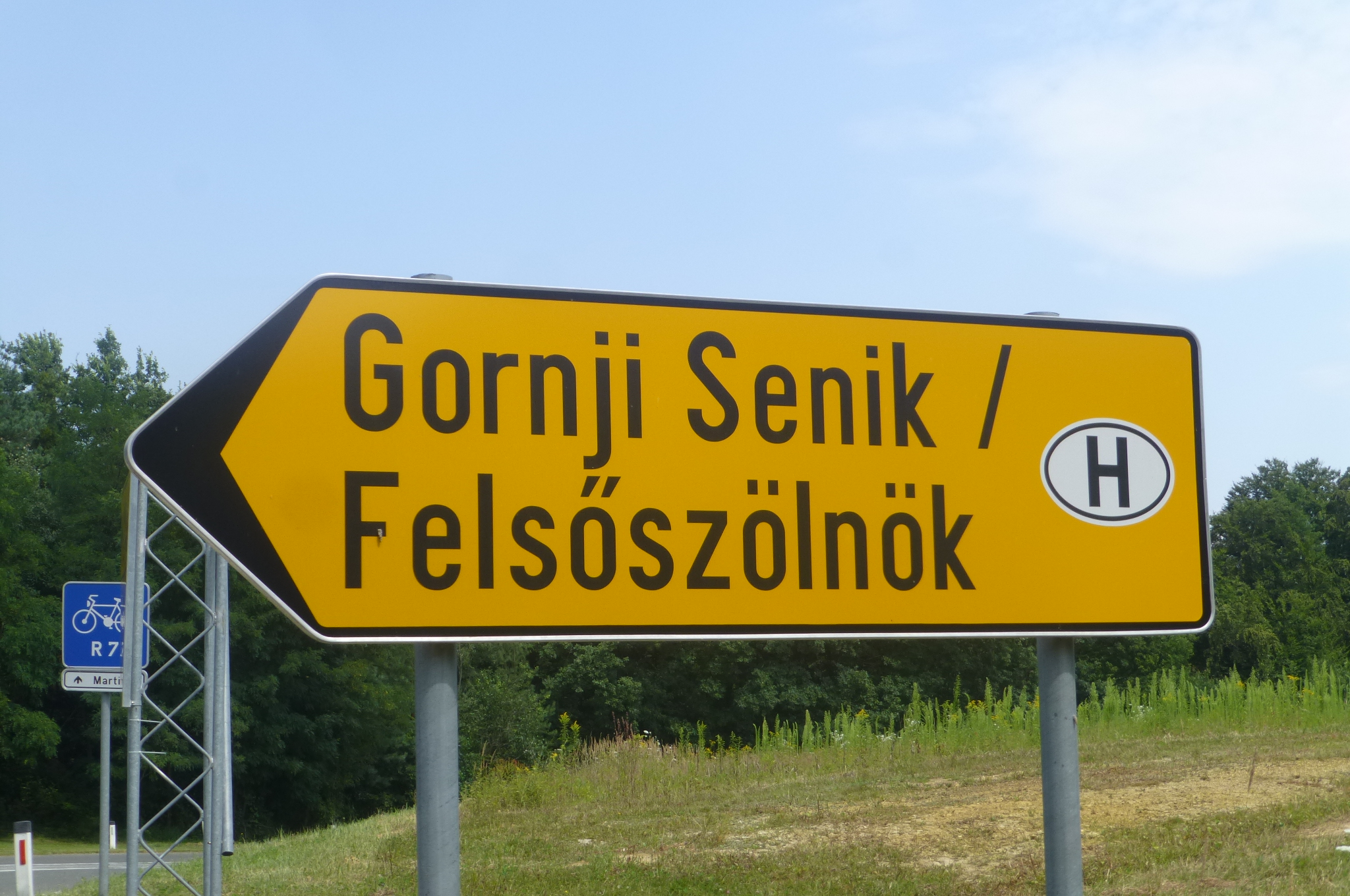 Bilingual (Slovenian and Hungarian) signs in Martinje (hu. Magasfok). The hu/sl bilingual signs are common on booth side of the border.